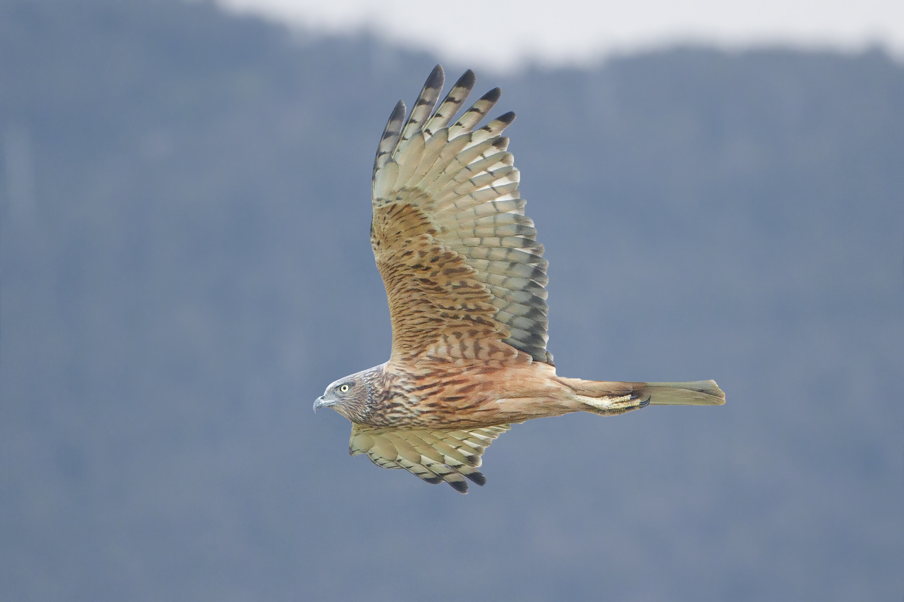 Swamp Harrier (Circus approximans) male, Peter Murrel Reserve, Kingston, Tasmania